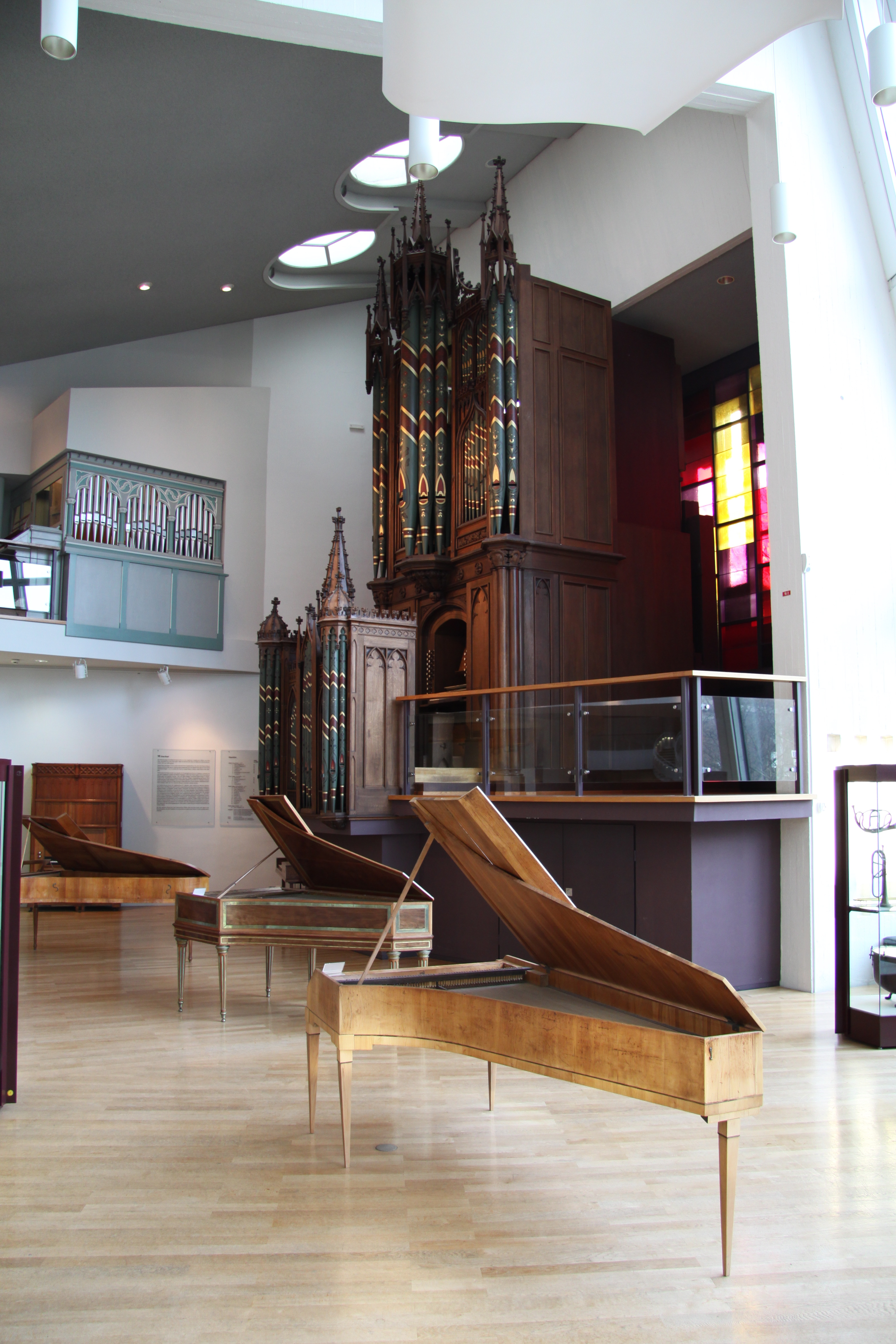 The Gray organ (London 1815-20) at the MIM, Berlin. It was built for a church in Bathampton near Bath in Somerset.[1]